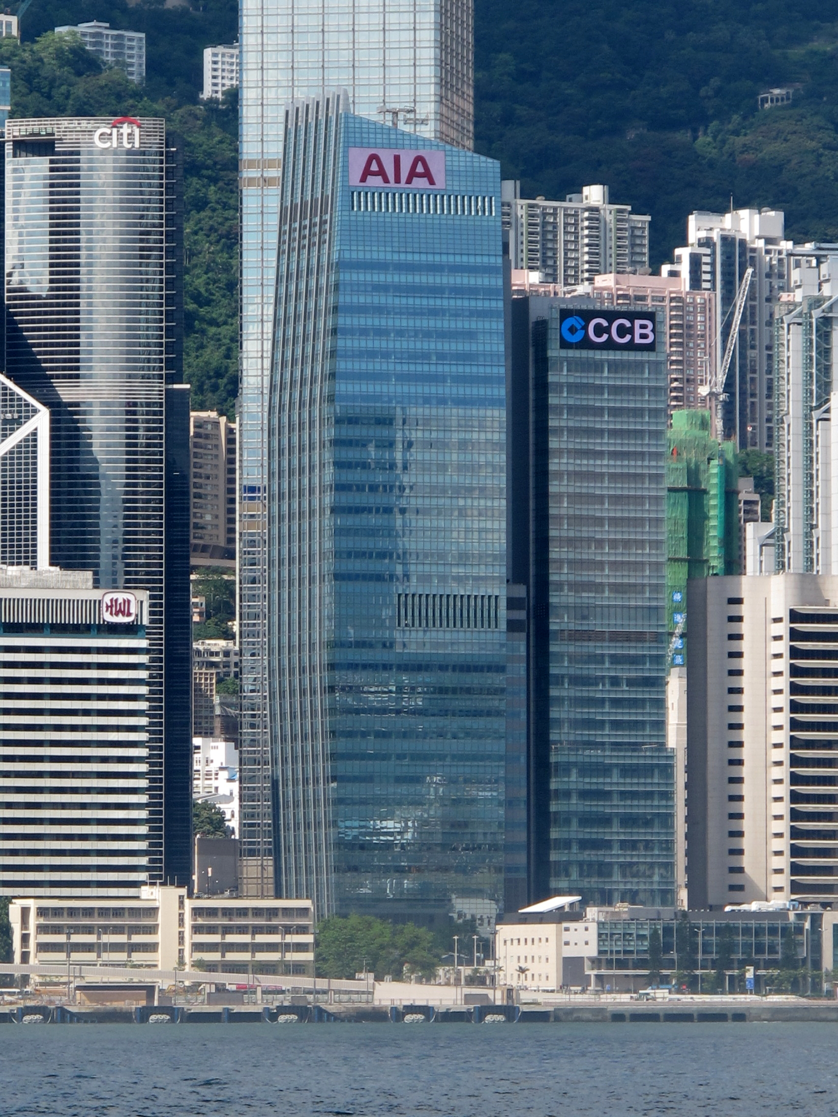 AIA Tower